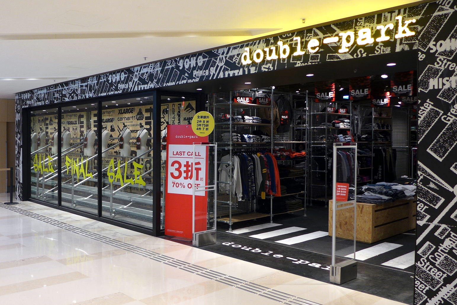 double park in YOHO Mall